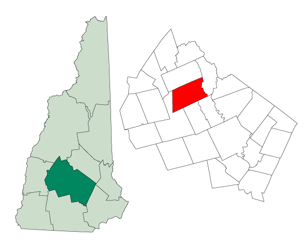 Map of a municipality in Merrimack County, New Hampshire